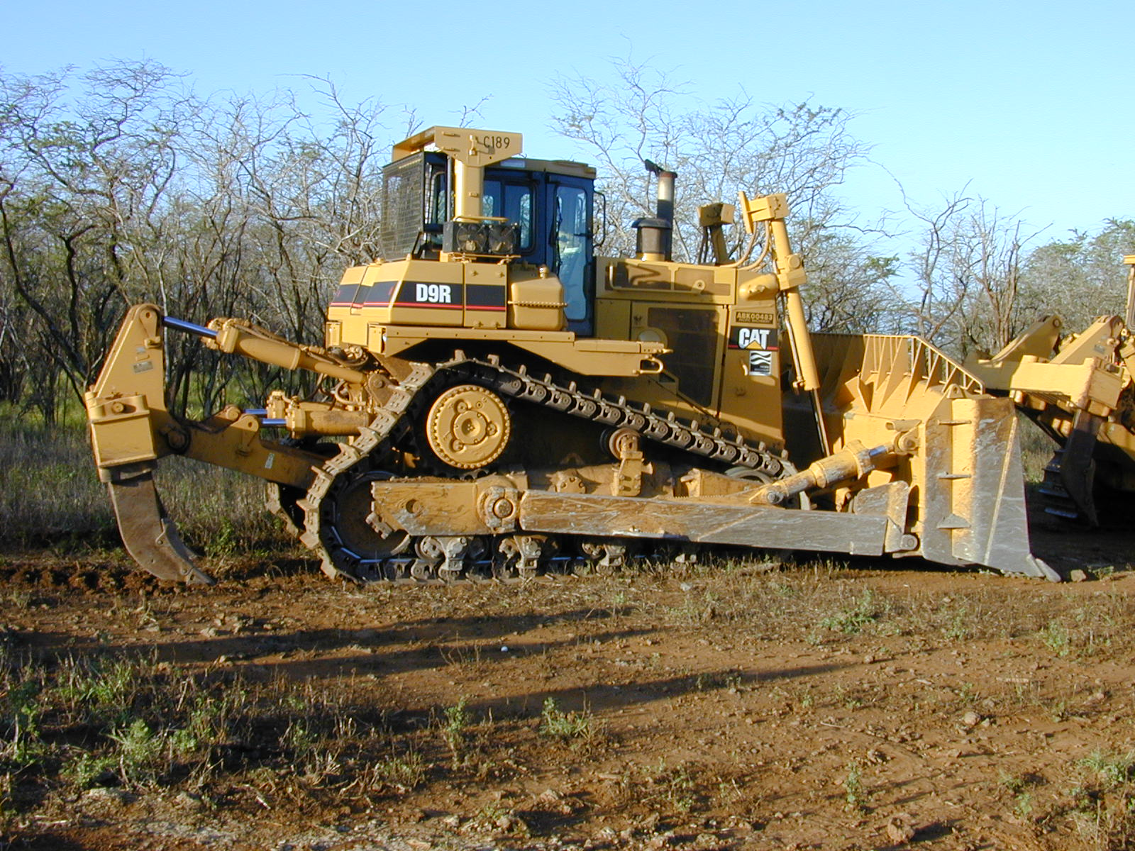 Prosopis pallida (bulldozer Caterpillar D9R). Location: Maui, Puu o Kali